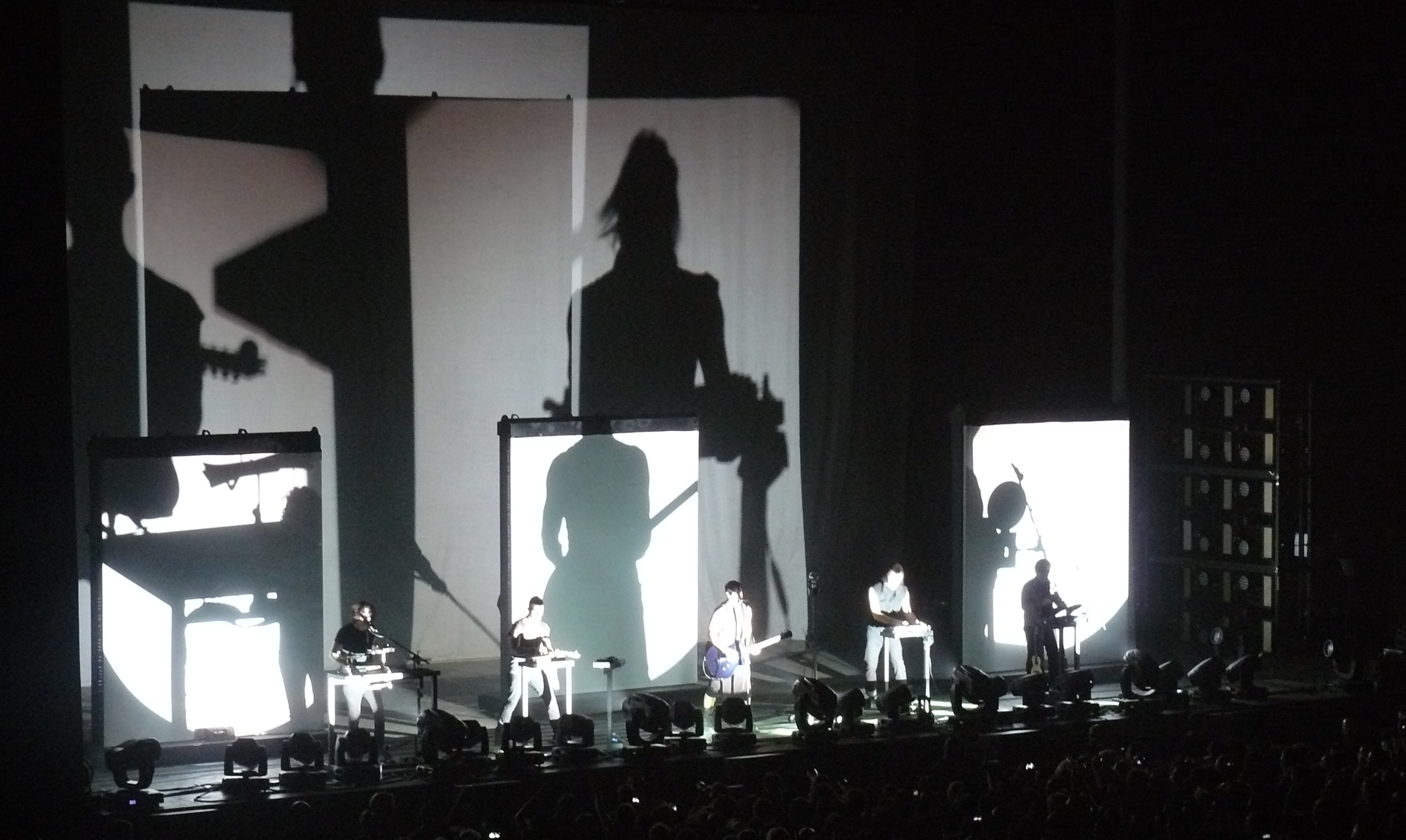 Nine Inch Nails, live at Mediolanum Forum, Milan on August 28, 2013.